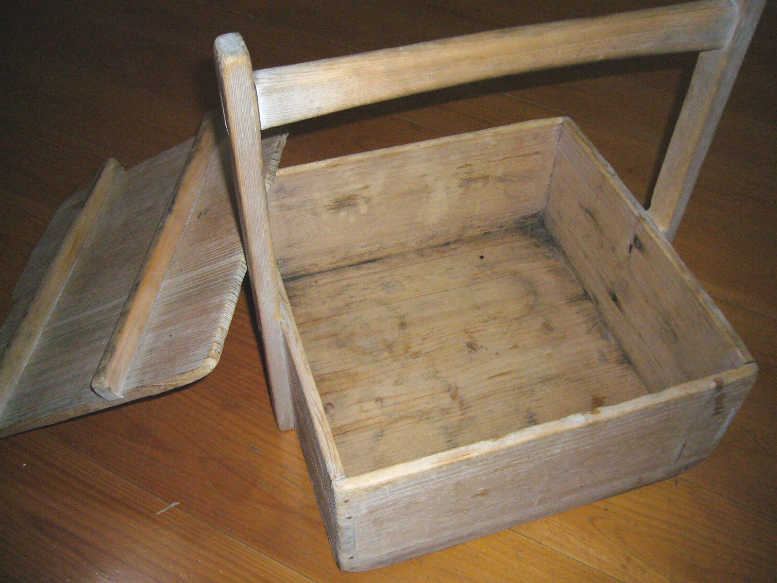 okamochi,carry-home-derively-of-meals-donburi,japan